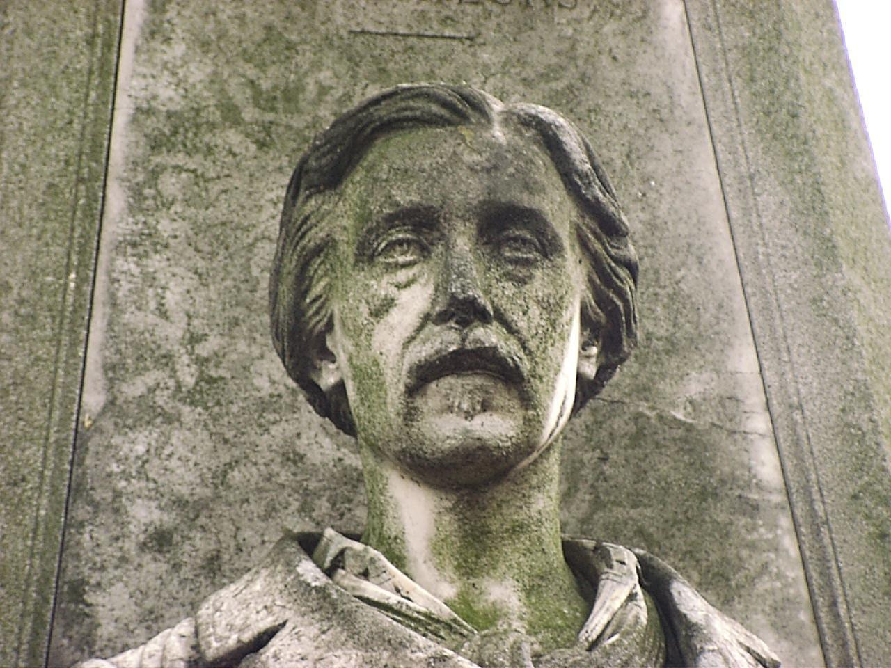 Grave of Jean Bernard Léon Foucault on Cimetière de Montmartre.